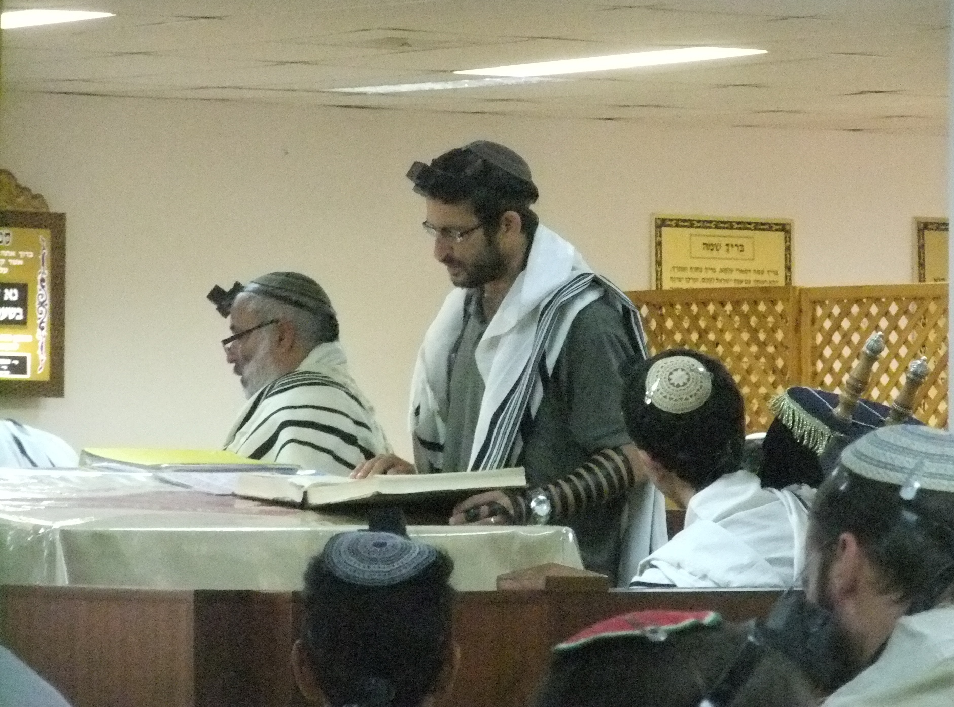 Reading the Haftara at Mincha Tisha Bav at the shool in Ofra. The reader is reading the Haftarah from the open bible in Isaah. The Torah scroll is held on the right.